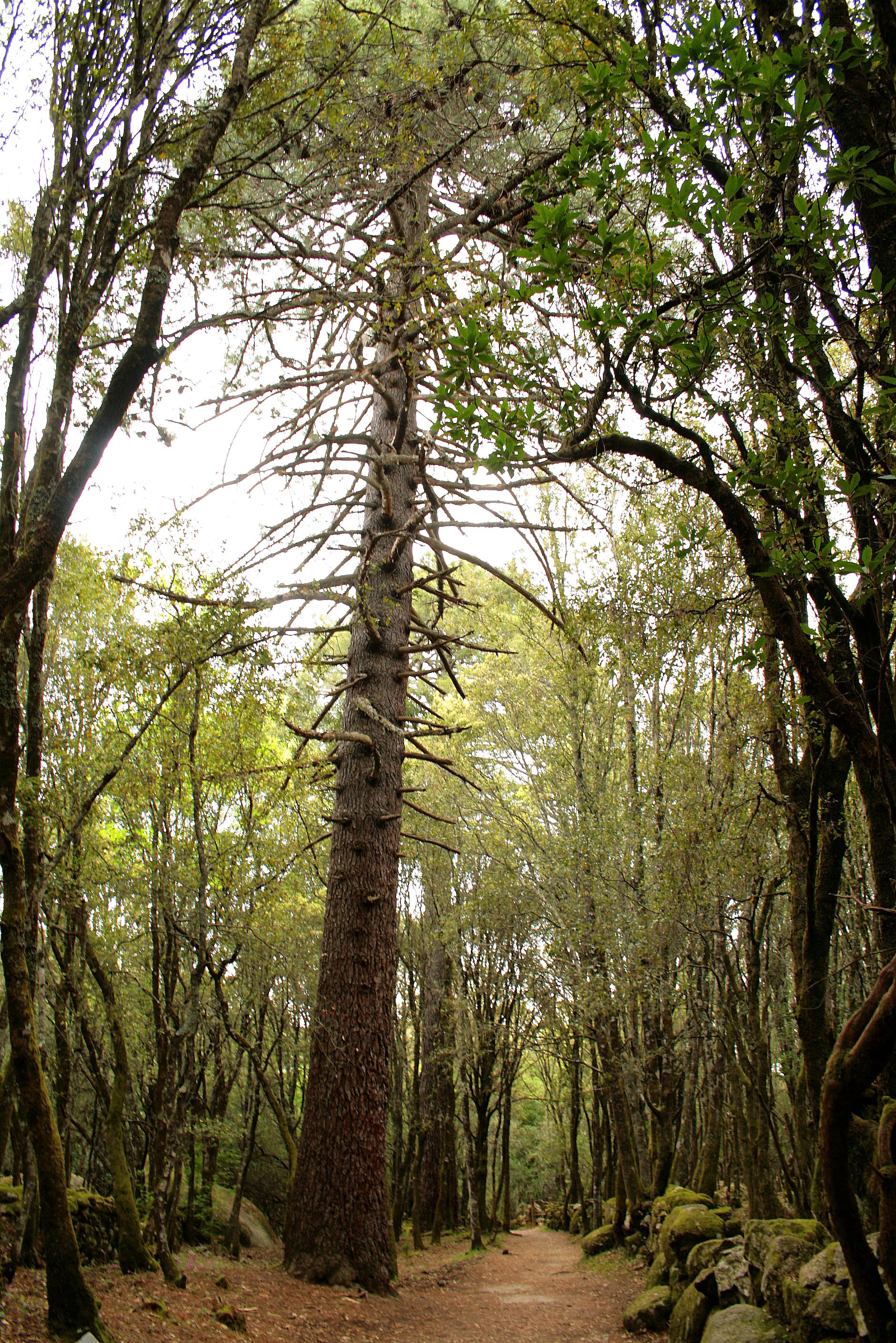 Maritime pine (Pinus pinaster) - Habitat: Cucuruzzu site. (Corse-du-Sud) - France. Corsu: Pinu marittimu (Pinus pinaster) - Cucuruzzu. (Corsica suttana) - Francia.